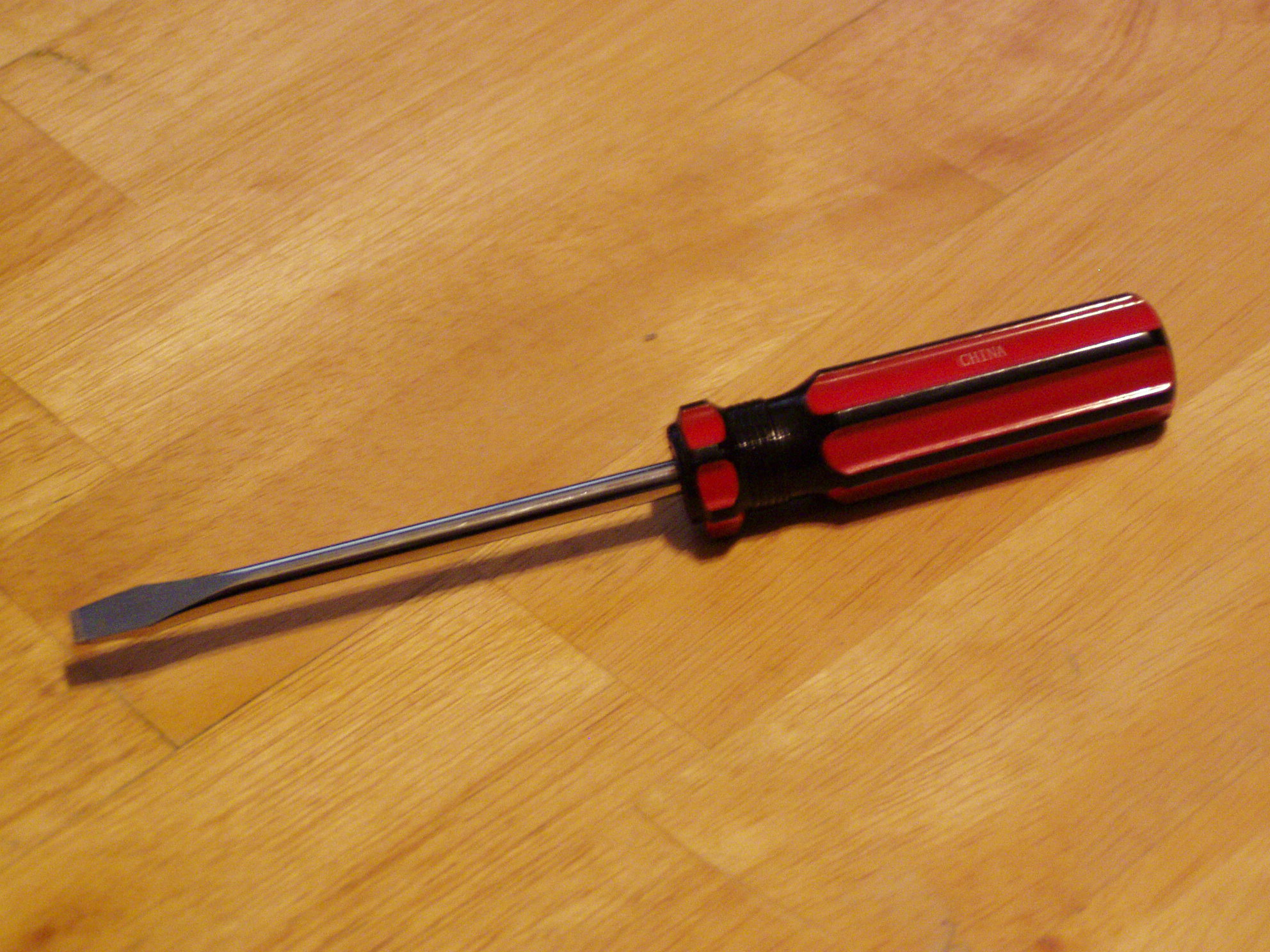 Standard Flathead Screwdriver